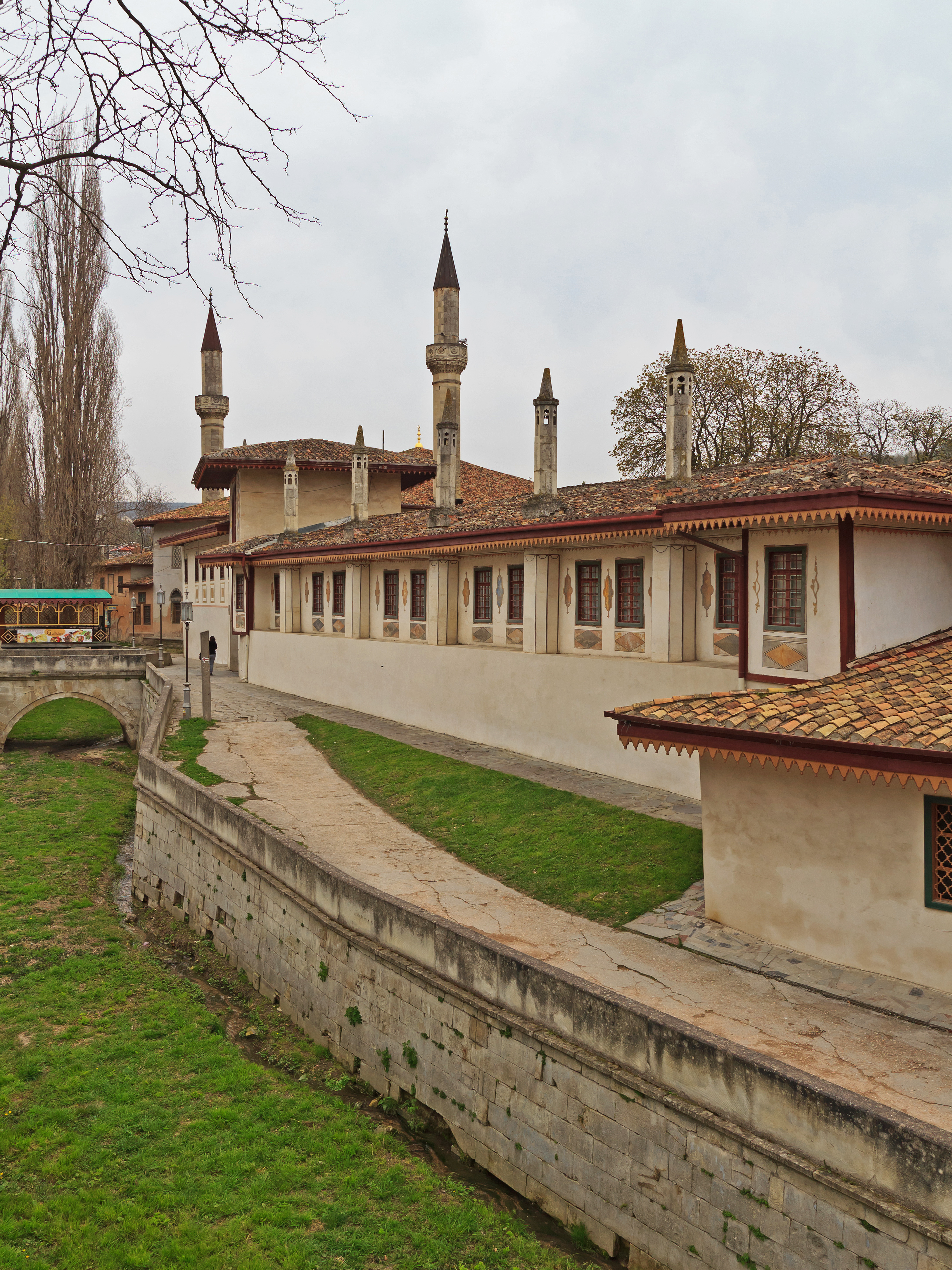 View to the Khan's Palace (Hansaray) in Bakhchisaray, Crimean Peninsula.